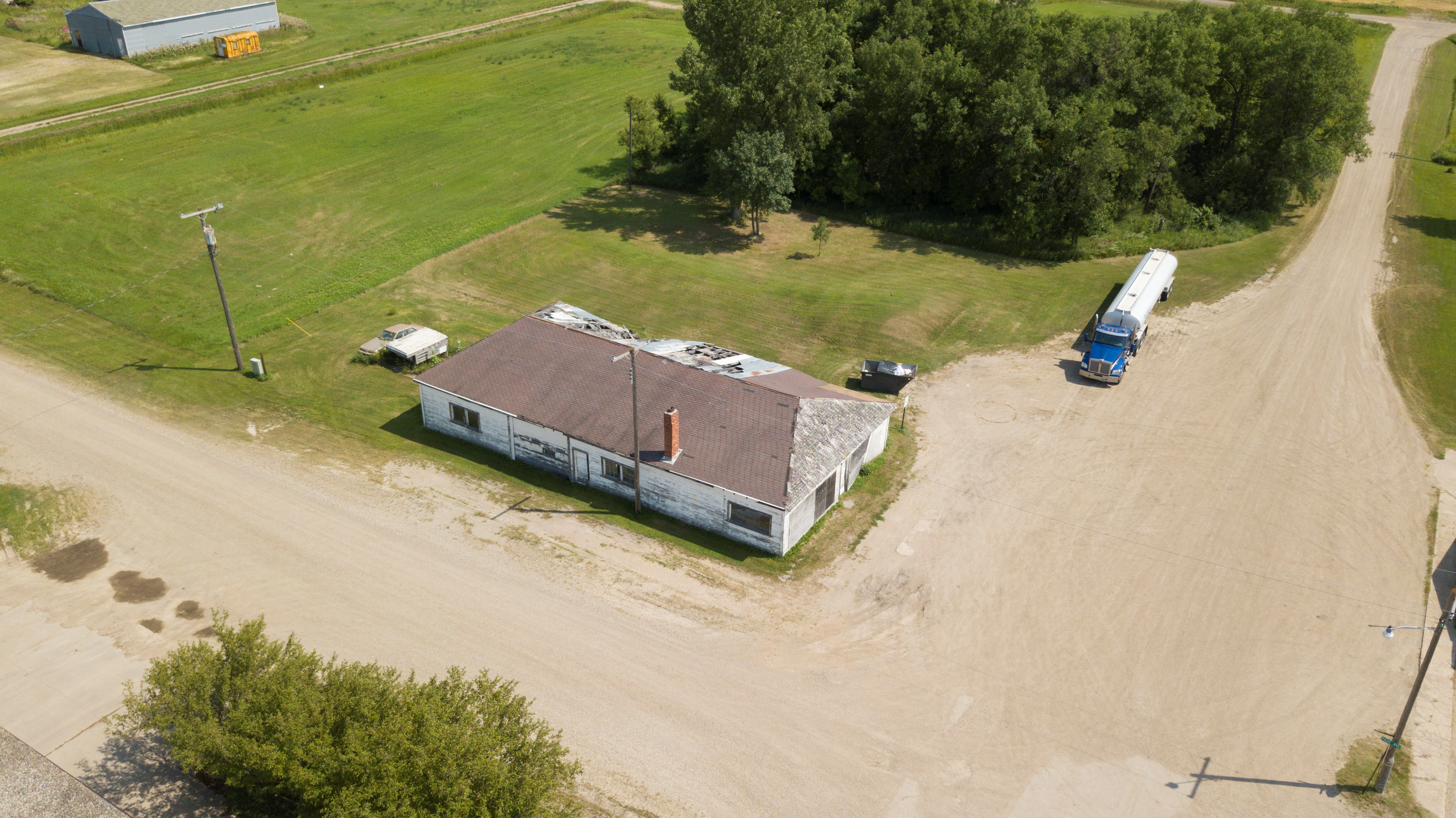 Hamilton, North Dakota - Hamilton Motor and Implement building, taken with a DJI Mavic Pro drone by Neal Martin (originally from Hamilton, ND).